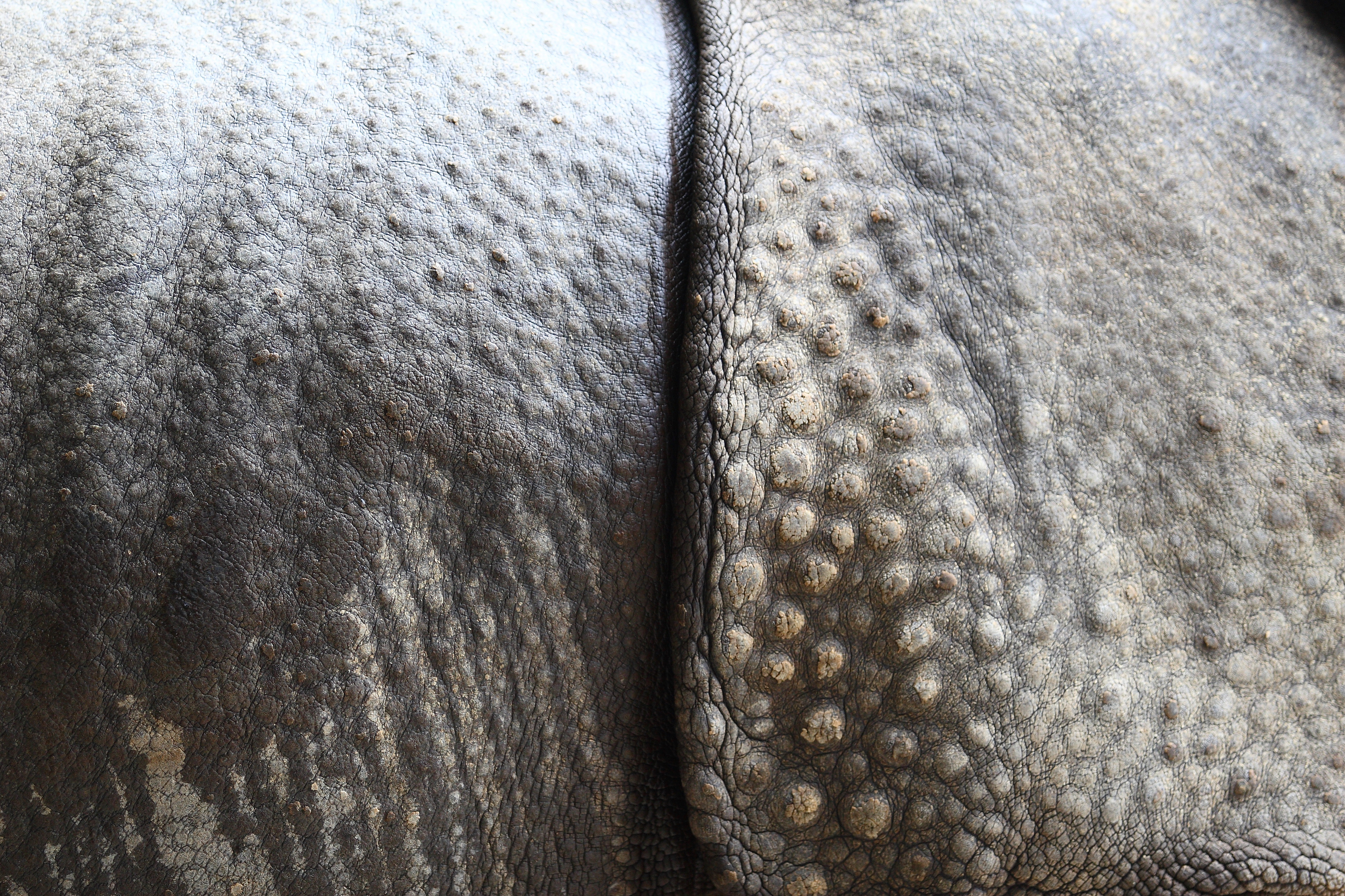 Close-up picture of rhino skin (San Diego Zoo, USA)